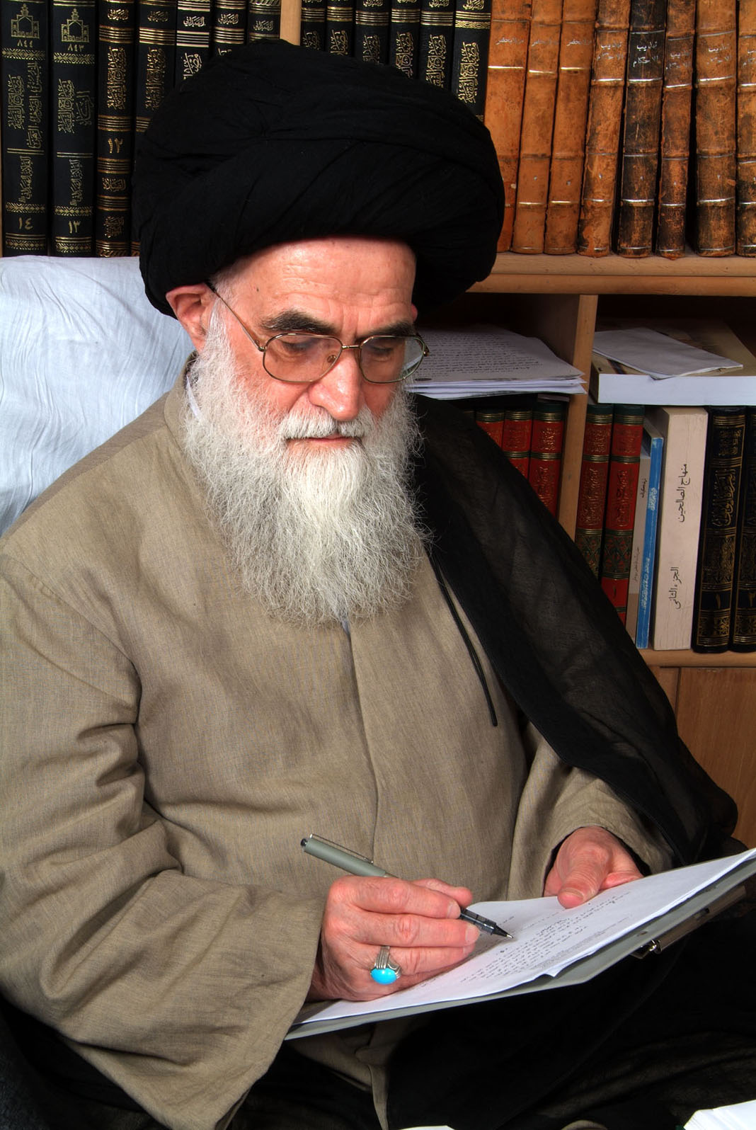 Grand Ayatollah Sayyid Mohammad Sadeq Hussaini Rohani signing.